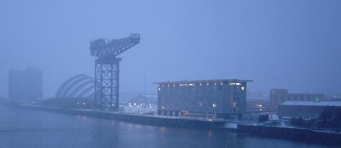 A view over the Clyde in Glasgow on a winter afternoon. The Armadillo can be seen in the background. Made by User:Twid in January 2005.